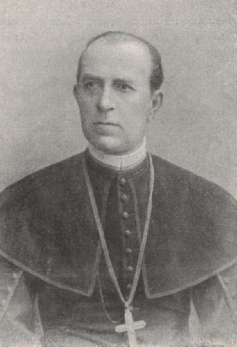 Béla Mayer